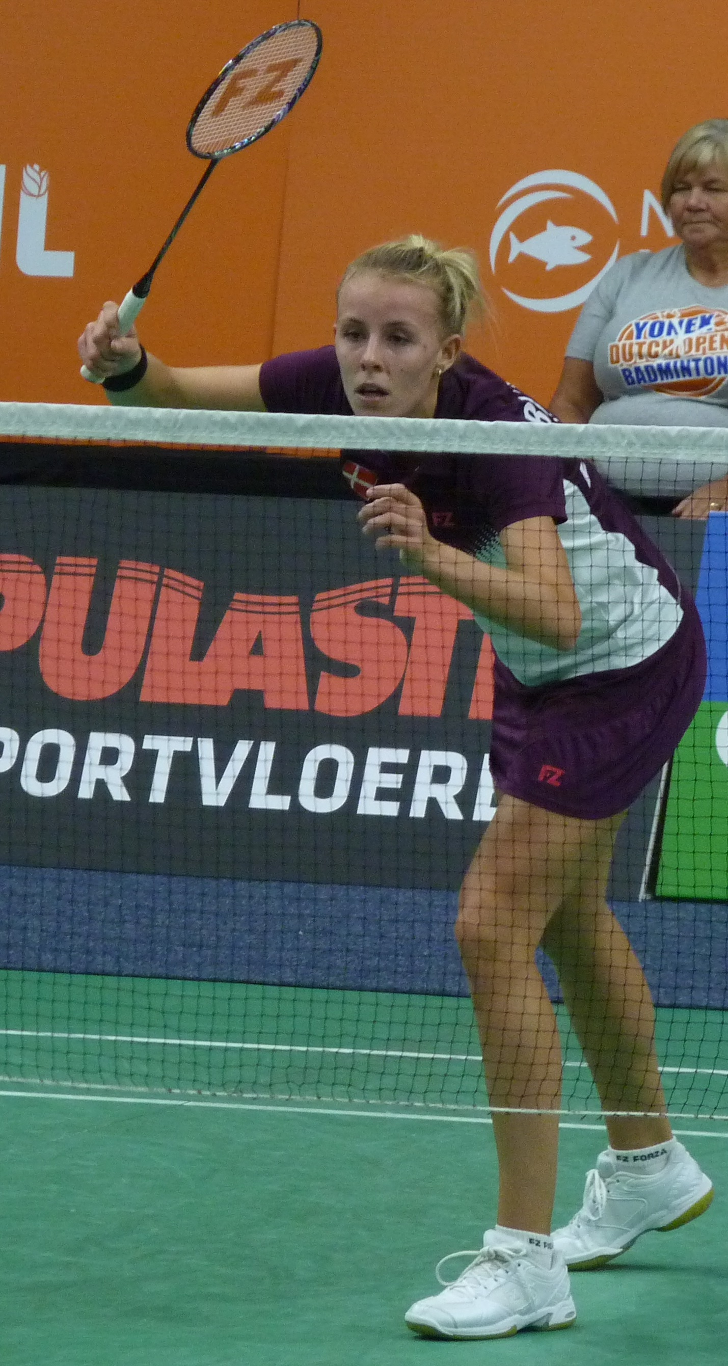 Mia Blichfeldt (DEN)